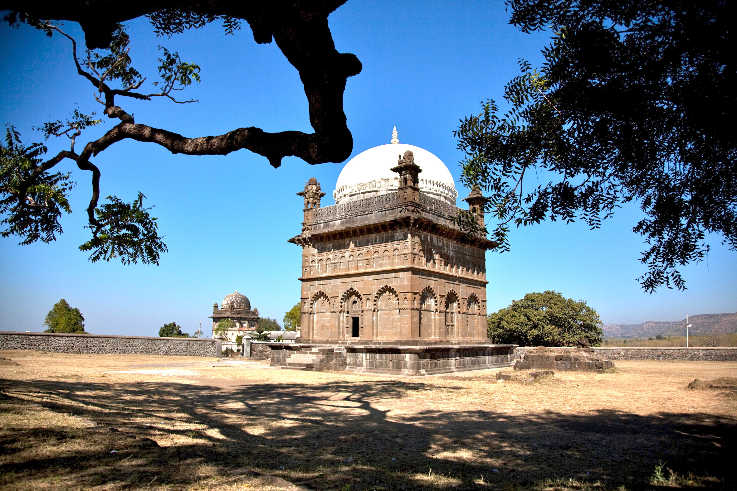 Malik Ambar - Deccan statesman, technician and military leader originating from Ethiopia